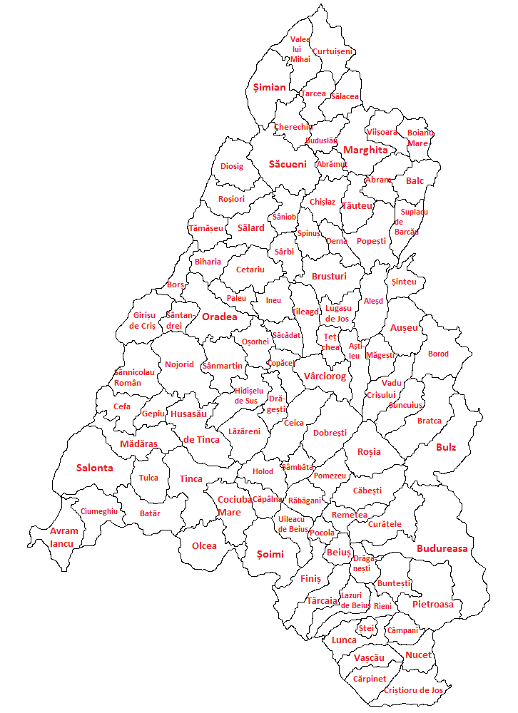 Administrative map of Bihor region, Romania